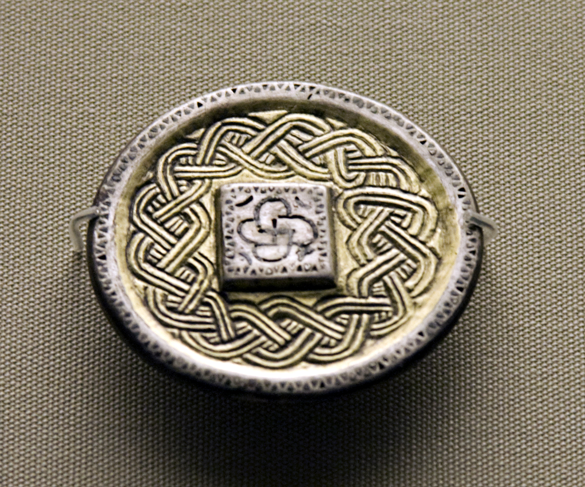 Merovingian brooch now in the British Museum. Tag on exhibit states: "Disc brooch made of gilded silver and niello. Merovingian, 7th century AD. From Linz, Rheinland-Pfalz, Germany. MME 94,2-17,3" See BM database entry for more details.